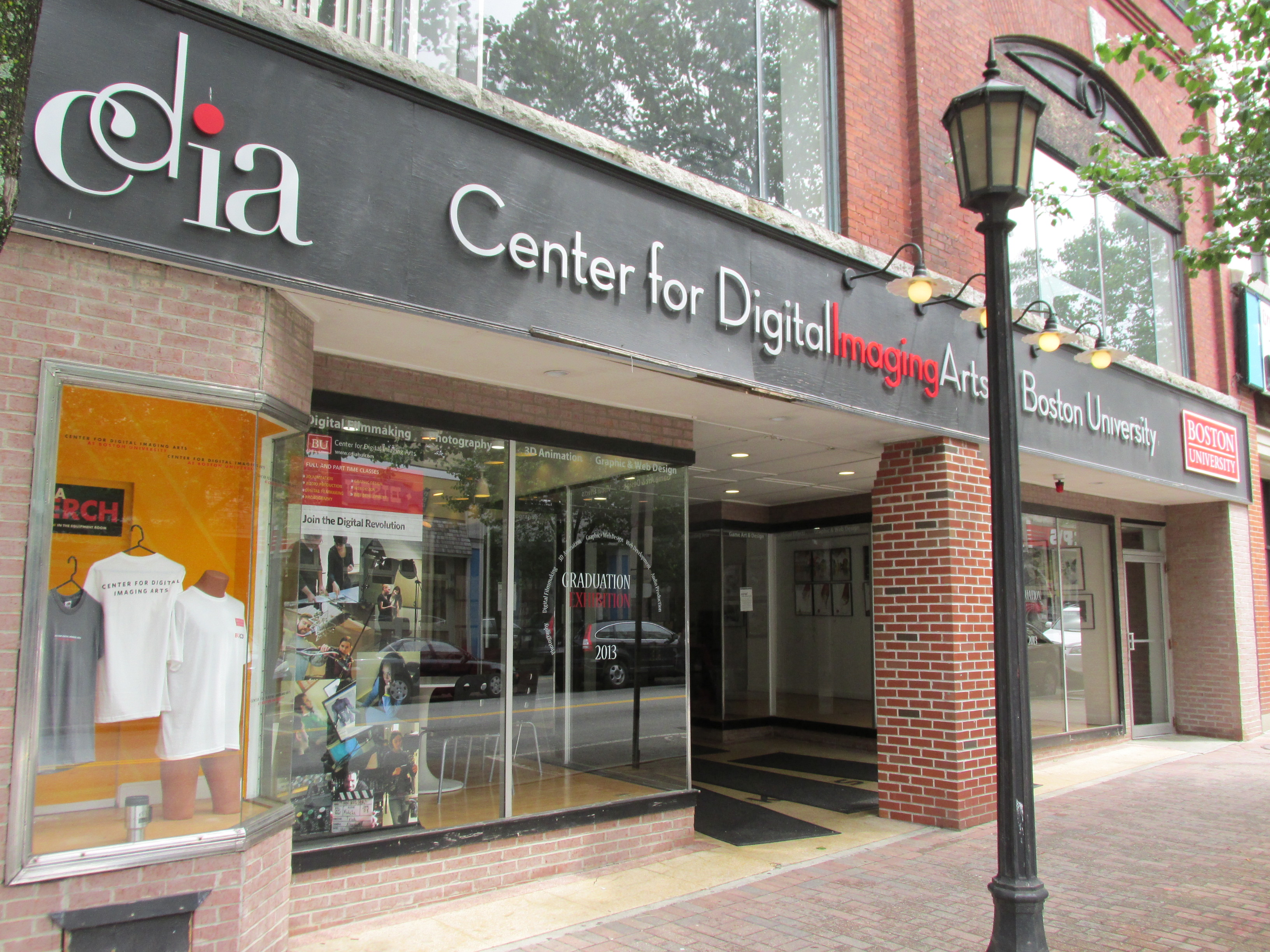 Center for Digital Imaging Arts, Boston University, Waltham Massachusetts - 2013